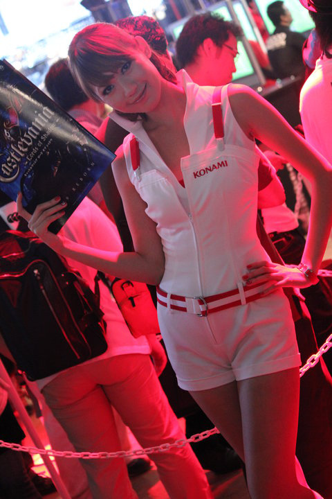 Mai Onozeki, promotional model of Castlevania: Lords of Shadow by Konami at Tokyo Game Show 2010.